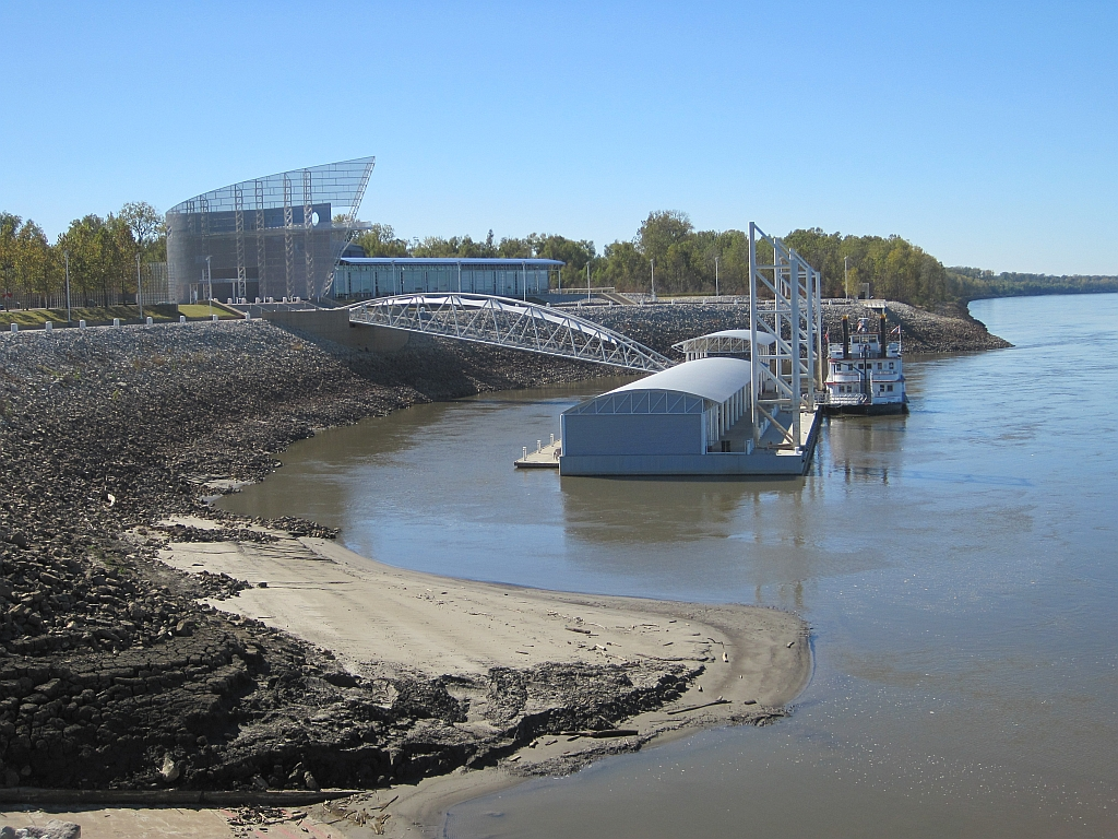 Tunica Riverpark and Museum at Tunica Resorts in Tunica County, Mississippi. Tunica Queen at boat dock